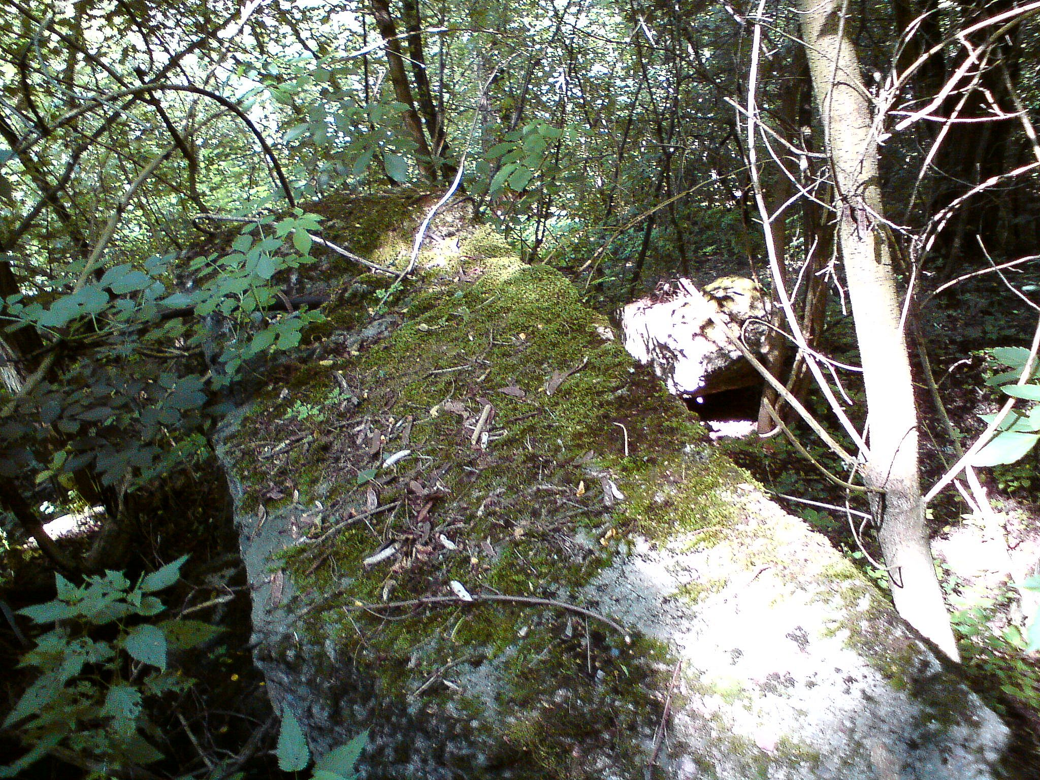 Ruins of one of the building of Transatlantycka Centrala Radiotelegraficzna